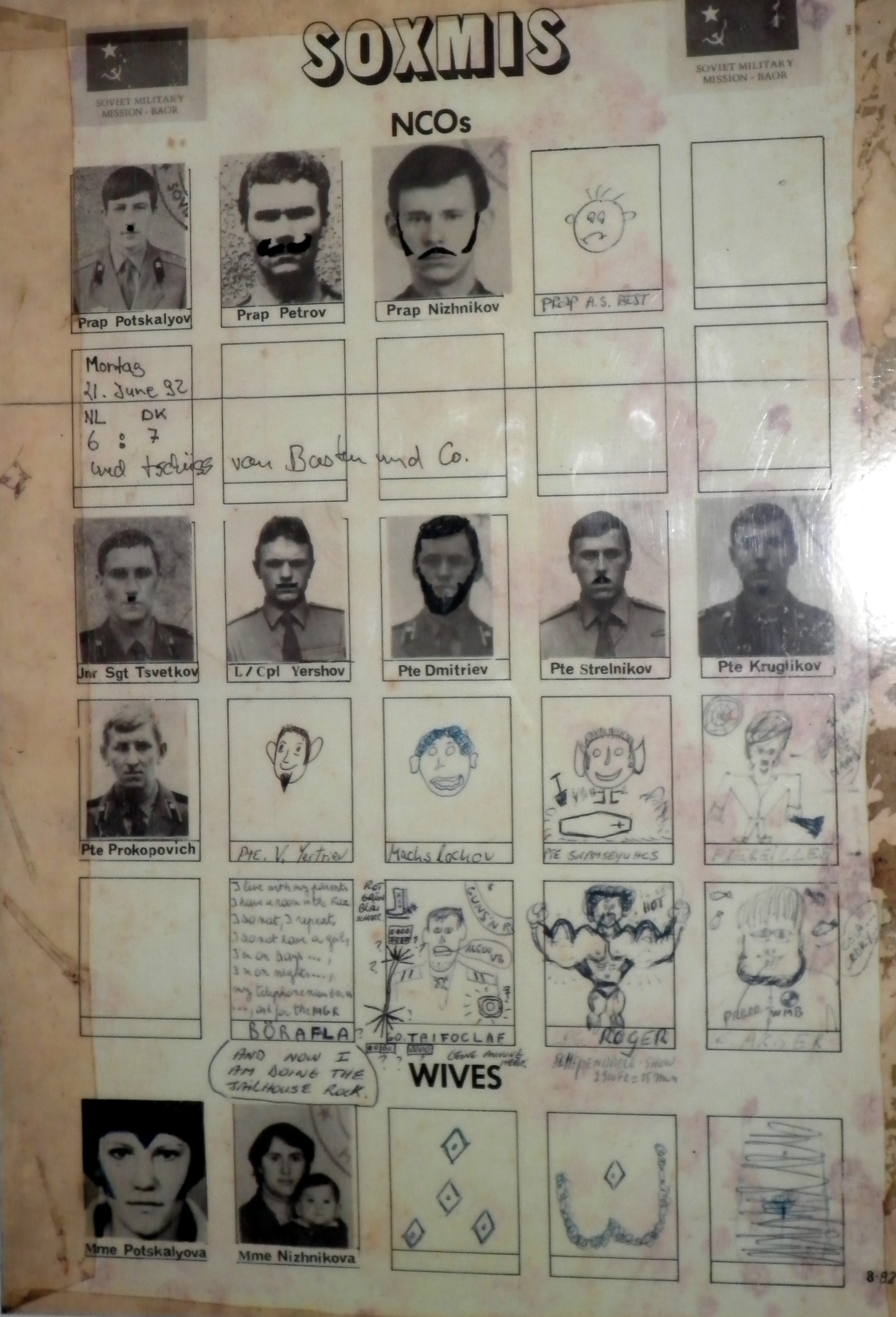 NATO headquarters Cannerberg - SOXMIS